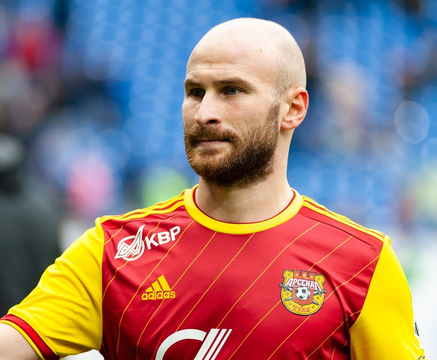 Kantemir Berkhamov with FC Arsenal Tula in a game against FC Rostov.